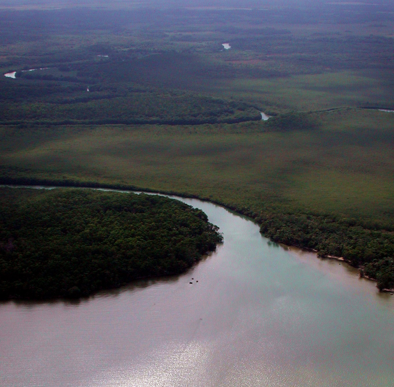 aerial photo of the Sibun or Xibun River at its mouth where it empties into the Caribbean